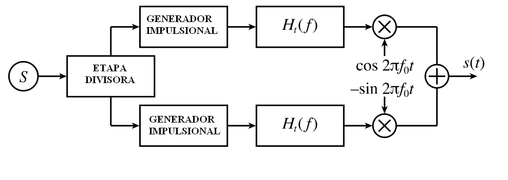 Transmissor QAM